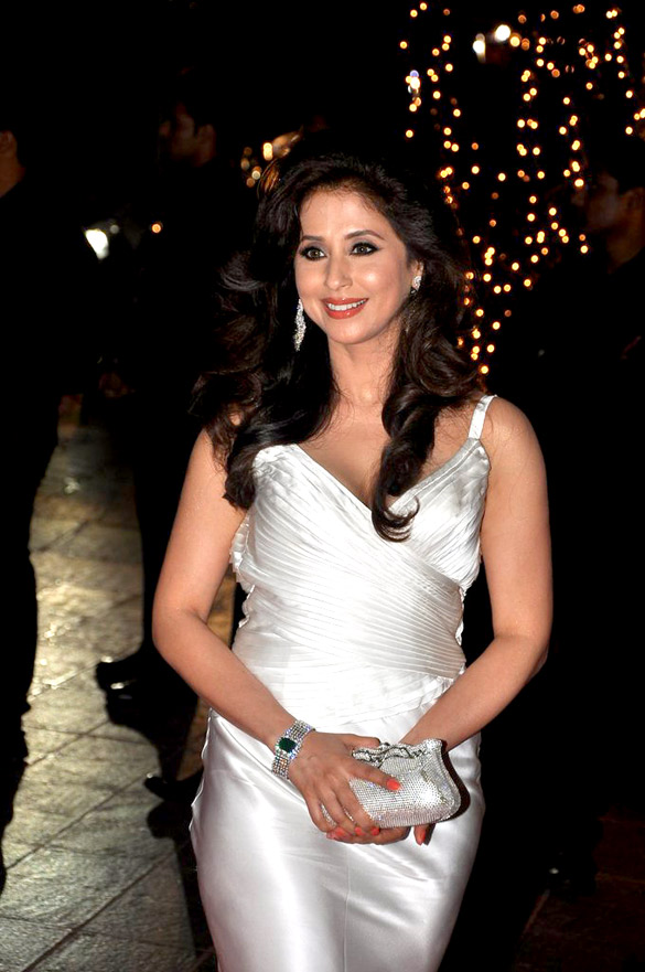 Urmila at kjo bday